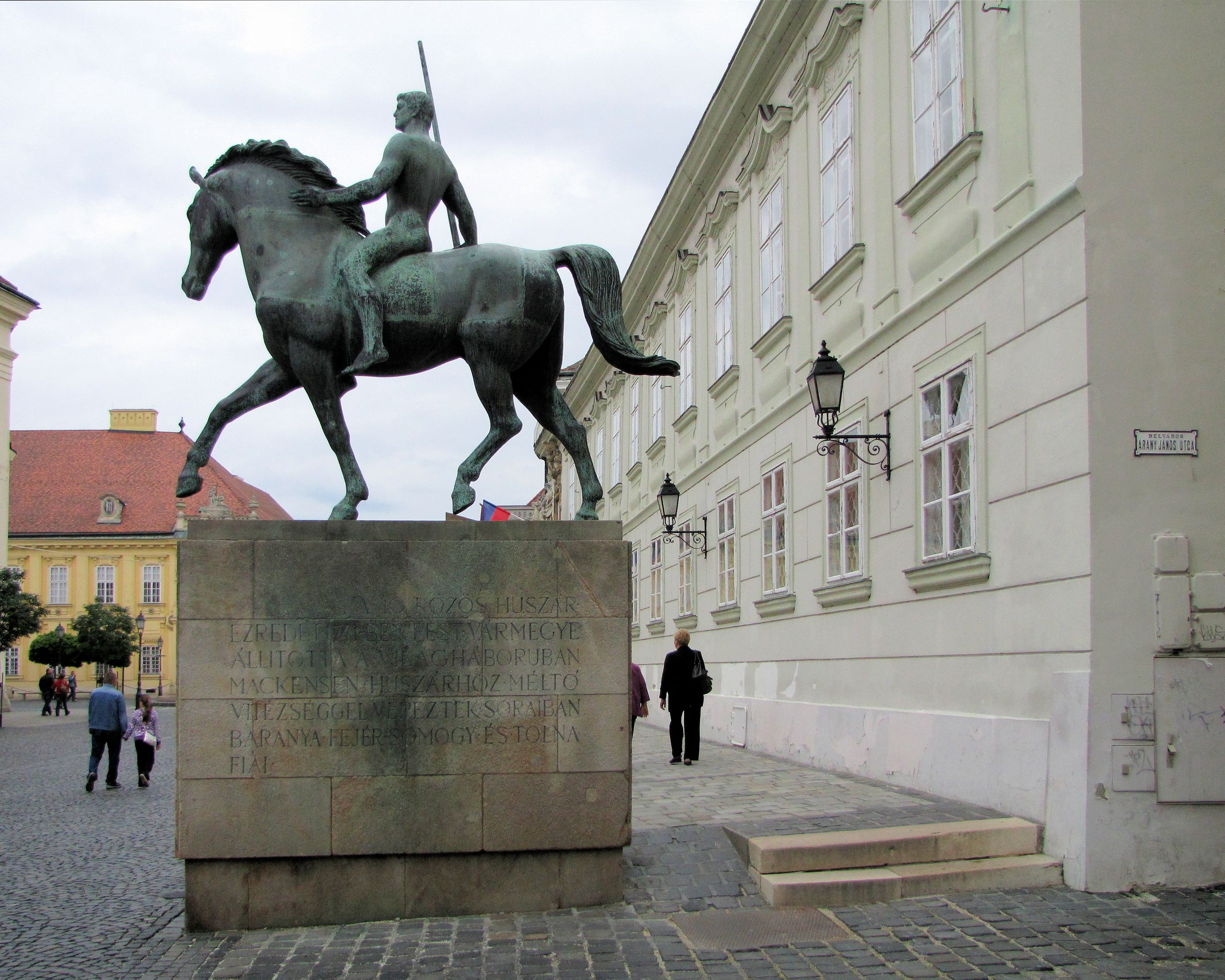 Monument of the 10th Hussar Regiment by Pál Pátzay, Székesfehérvár, Hungary.